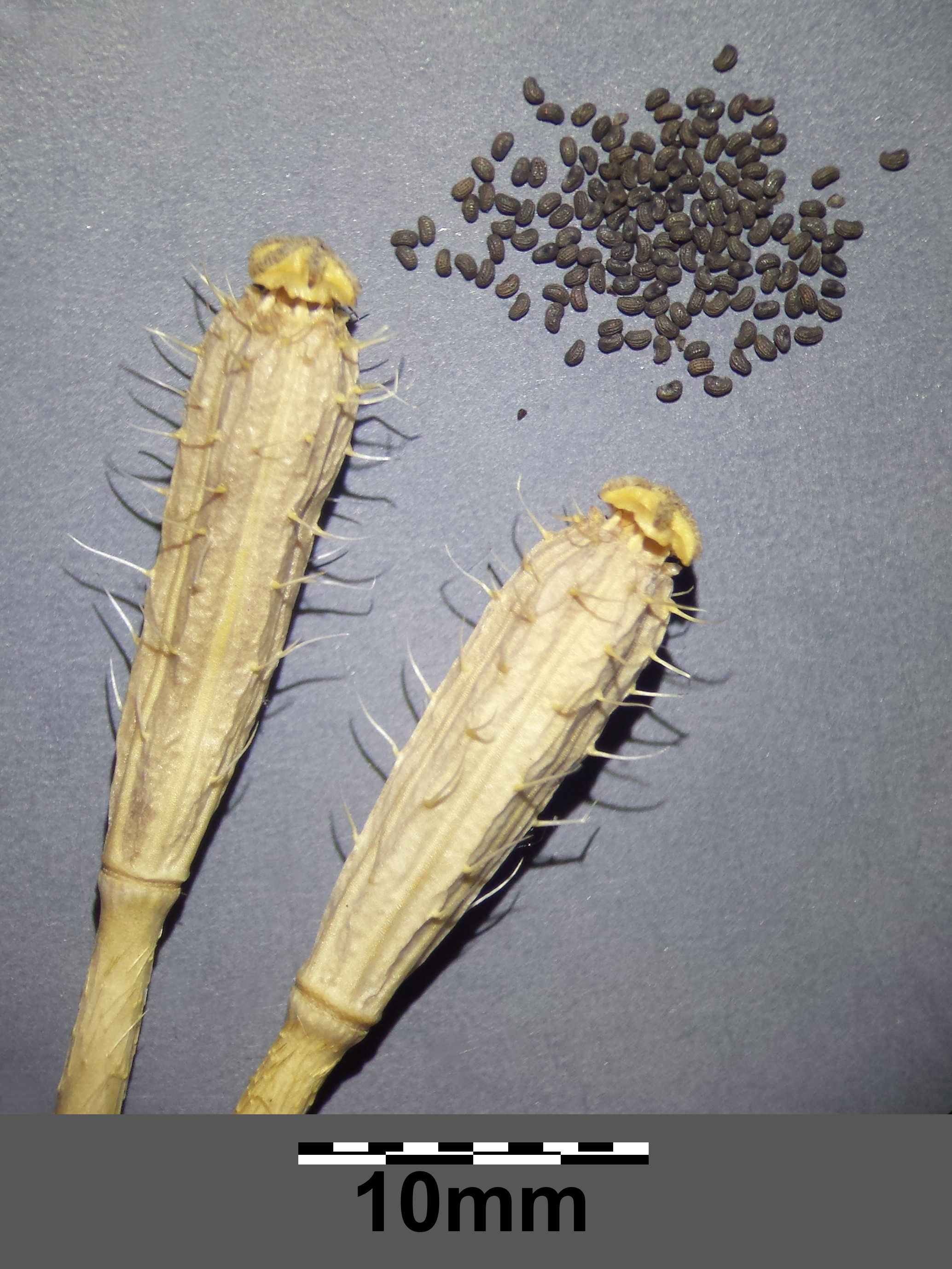 Fruits with seeds Taxonym: Papaver argemone ss Fischer et al. EfÖLS 2008 ISBN 978-3-85474-187-9 Location: Floridsdorf rail station, Vienna-Floridsdorf - ca. 160 m a.s.l. Habitat: ballast